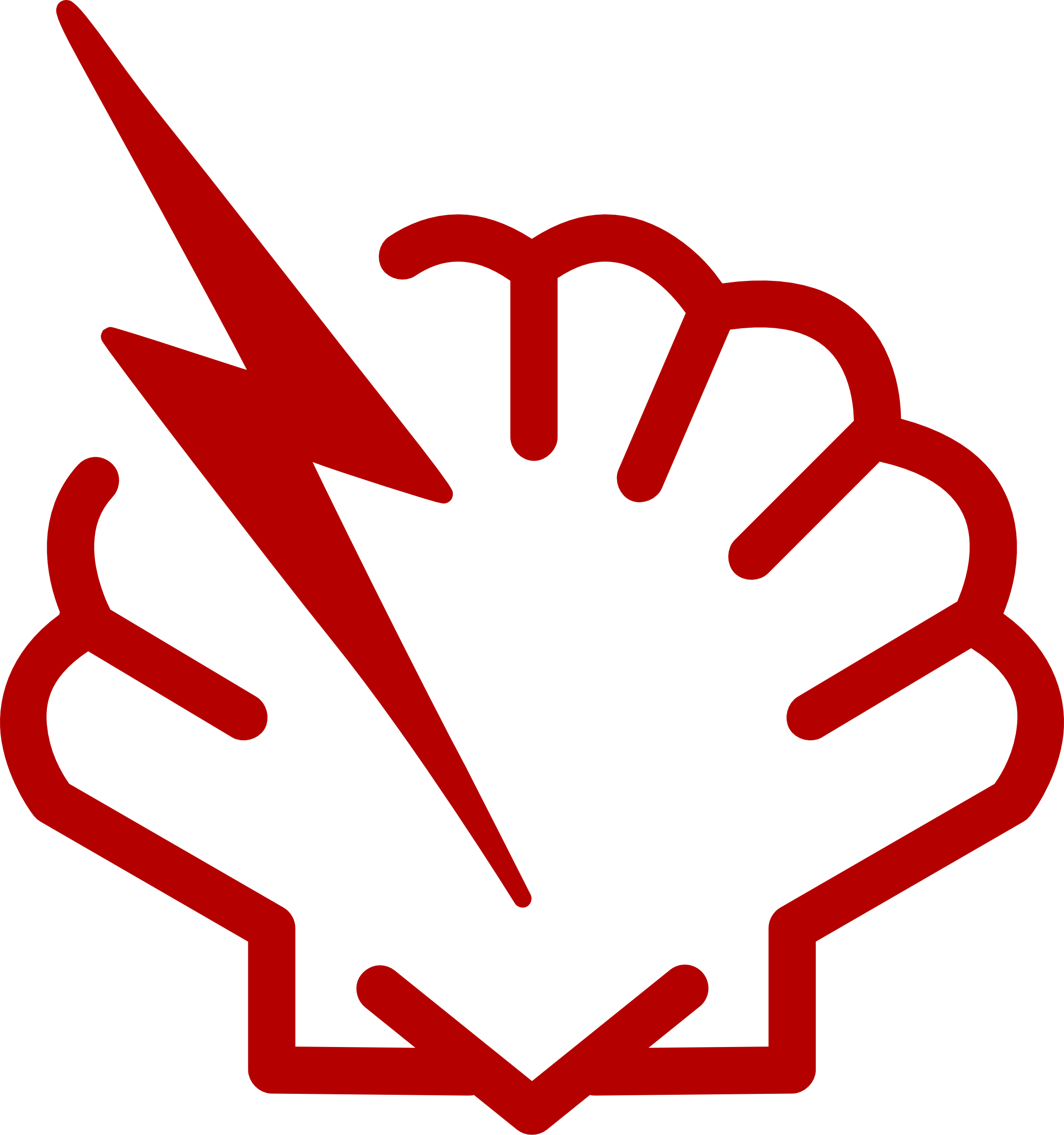 A simple logo in the style of the heartbleed bug intended to be used in effective communication of the shellshock bug.